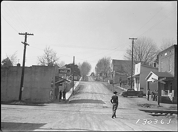 Friendsville, Tennessee, USA, photographed by TVA in 1942.